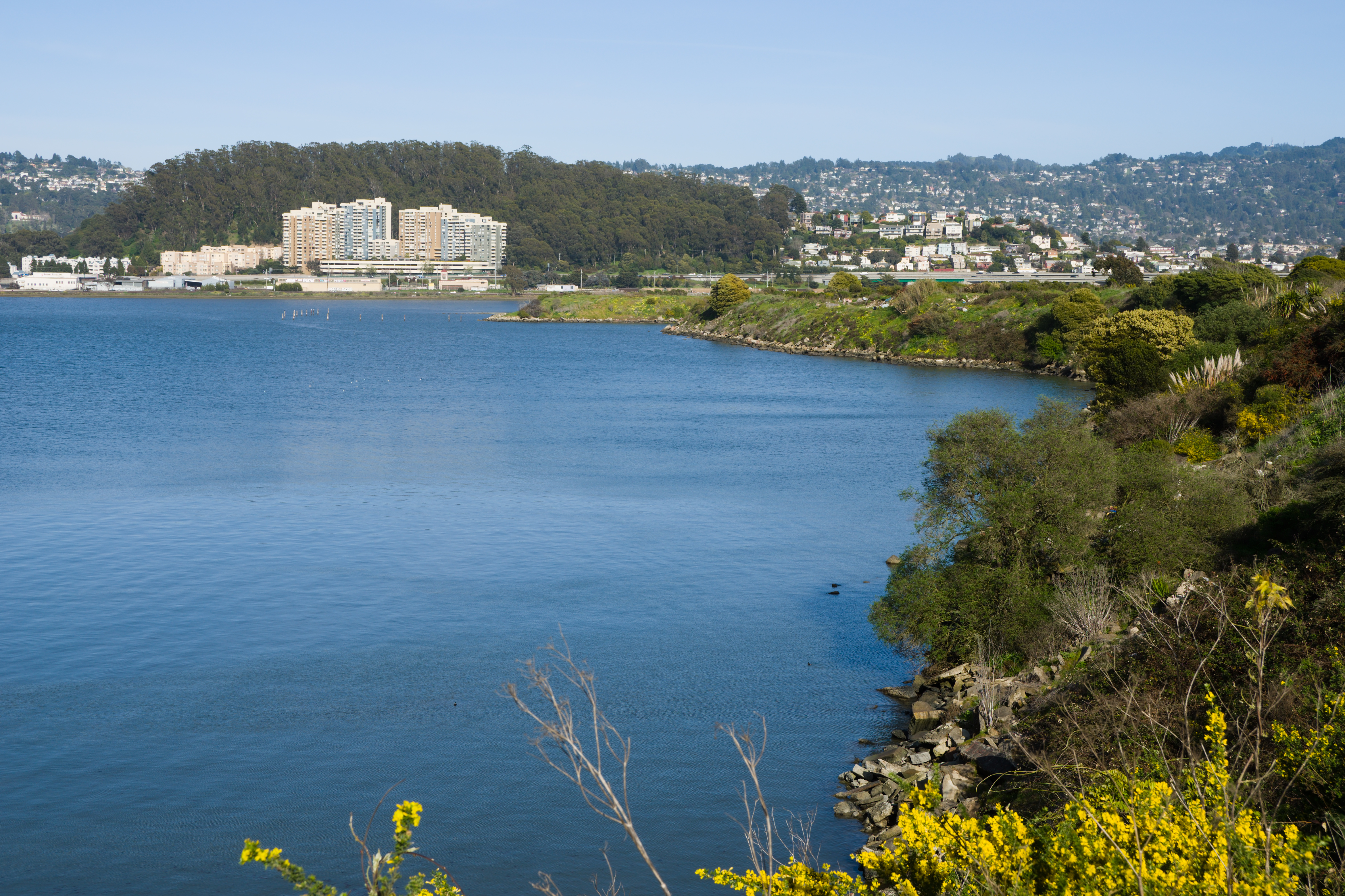 View of Albany from Albany Bulb, with Albany Hill on the left.